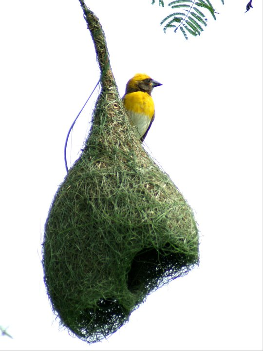 The Ploceidae, or weavers, are small passerine birds related to the finches.